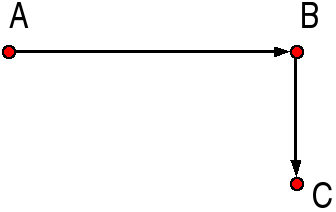 Two stage trajectory according to John Philoponus.